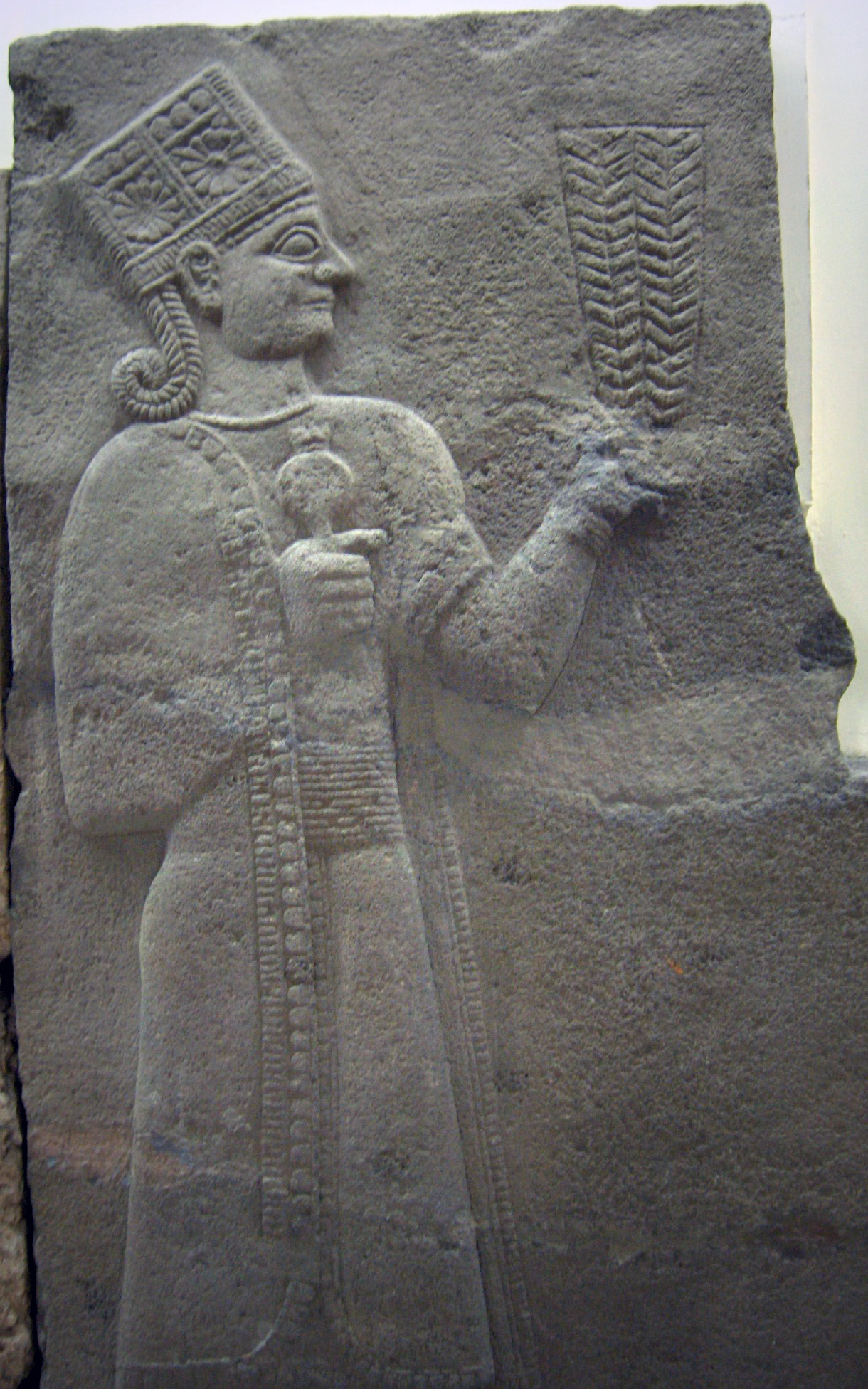 Relief of the goddess Kubaba , holding a pomegranate in his right hand; orthostat relief from Herald's wall, Carchemish ; 850-750 BC; Late Hittite style under Aramaean influence. Museum of Anatolian Civilizations, Ankara, Turkey